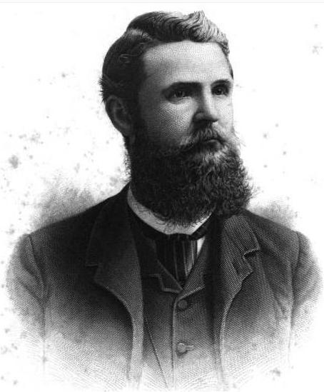 James Phelan, Jr., US Representative from Tennessee